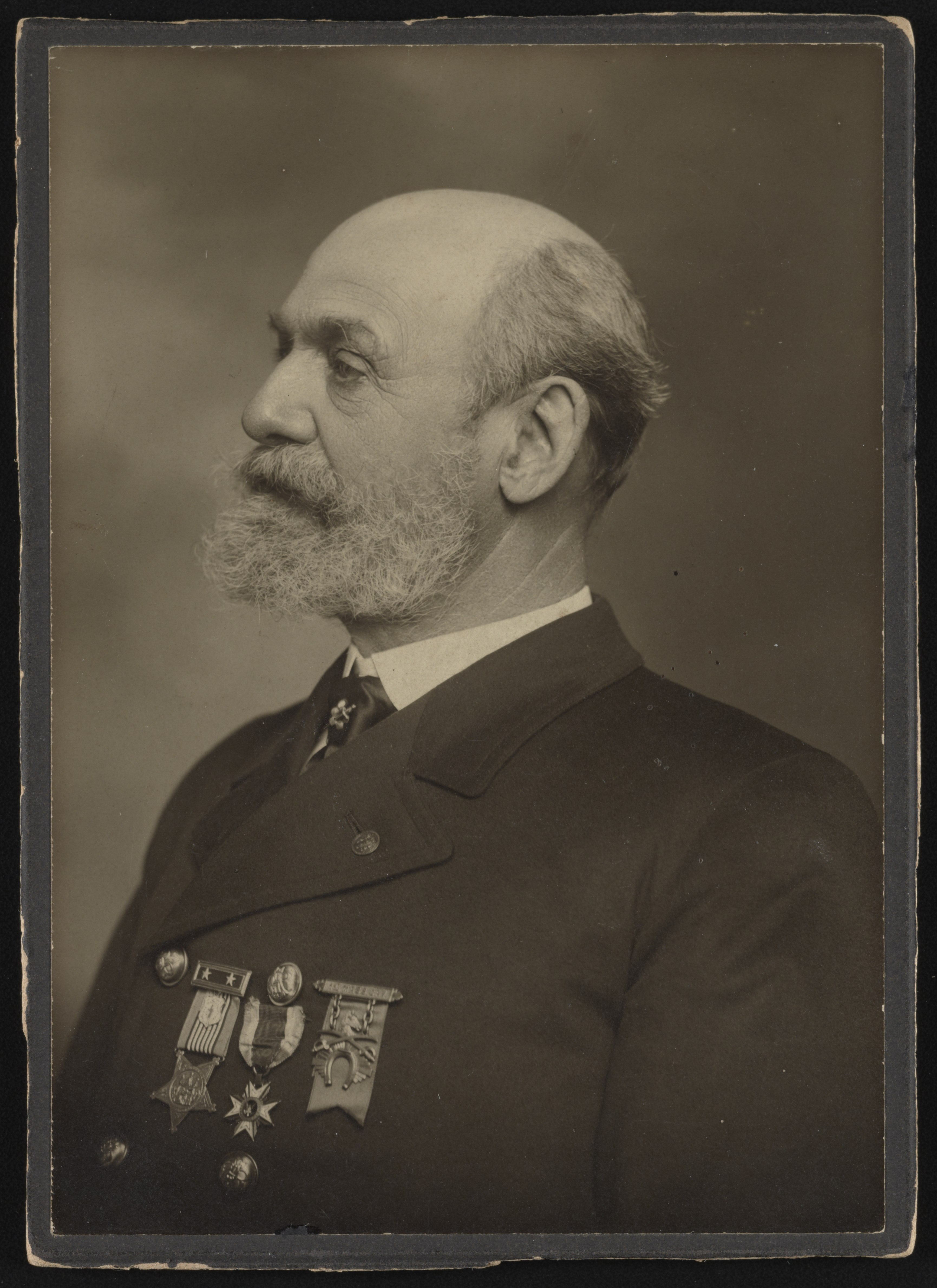 Title: Civil war veteran Daniel Henry Lawrence Gleason Abstract/medium: 1 photograph : print ; sheet 14 x 10 cm, mount 15 x 11 cm.